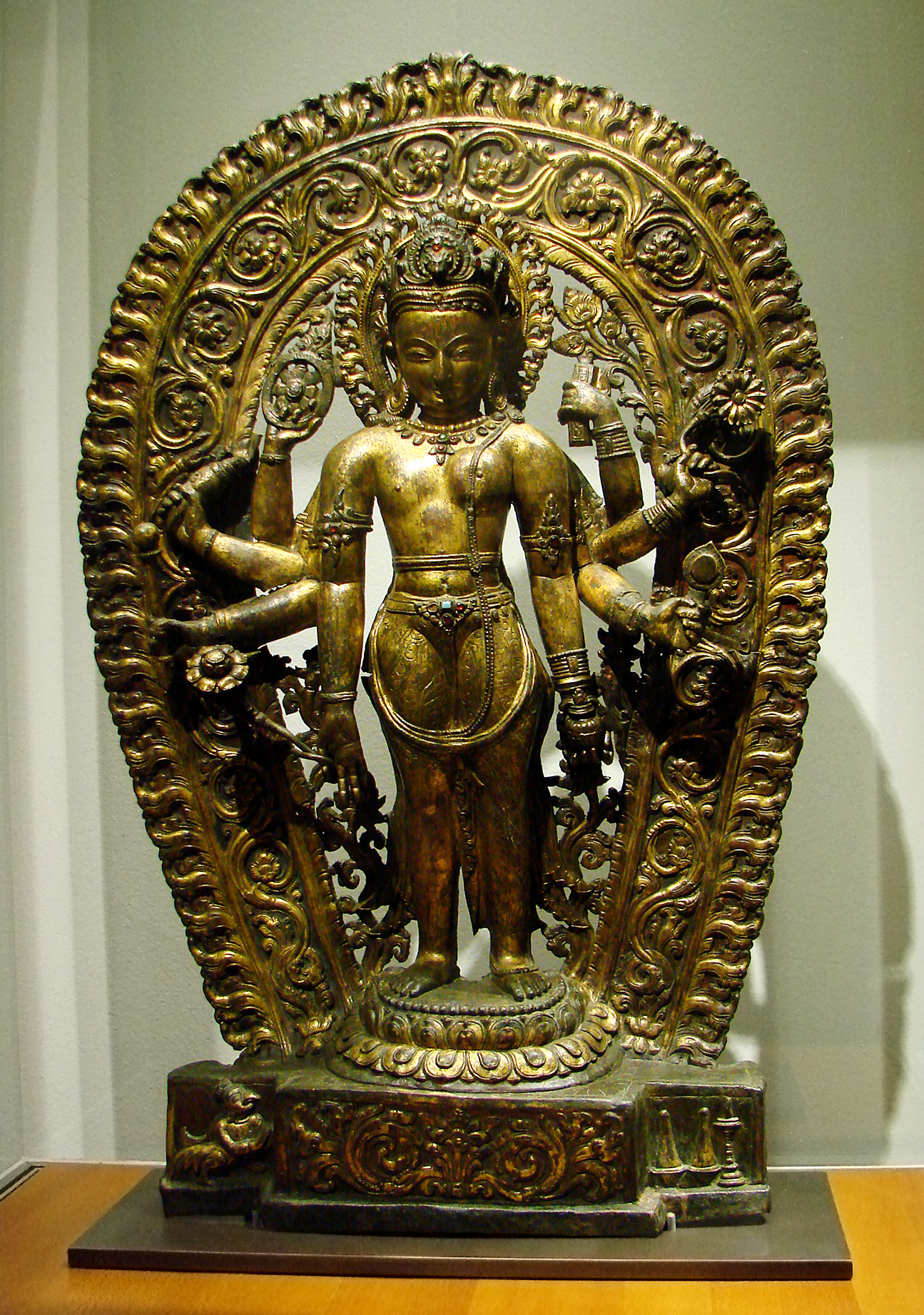 Androgynous Vishnu. Gilded copper and inlaid. 14th century, Nepal. Guimet Museum in Paris.